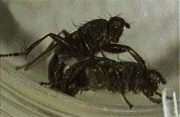 Orygma luctuosum Meigen, 1830 Mating - Male forelegs not clasping female wingbase.